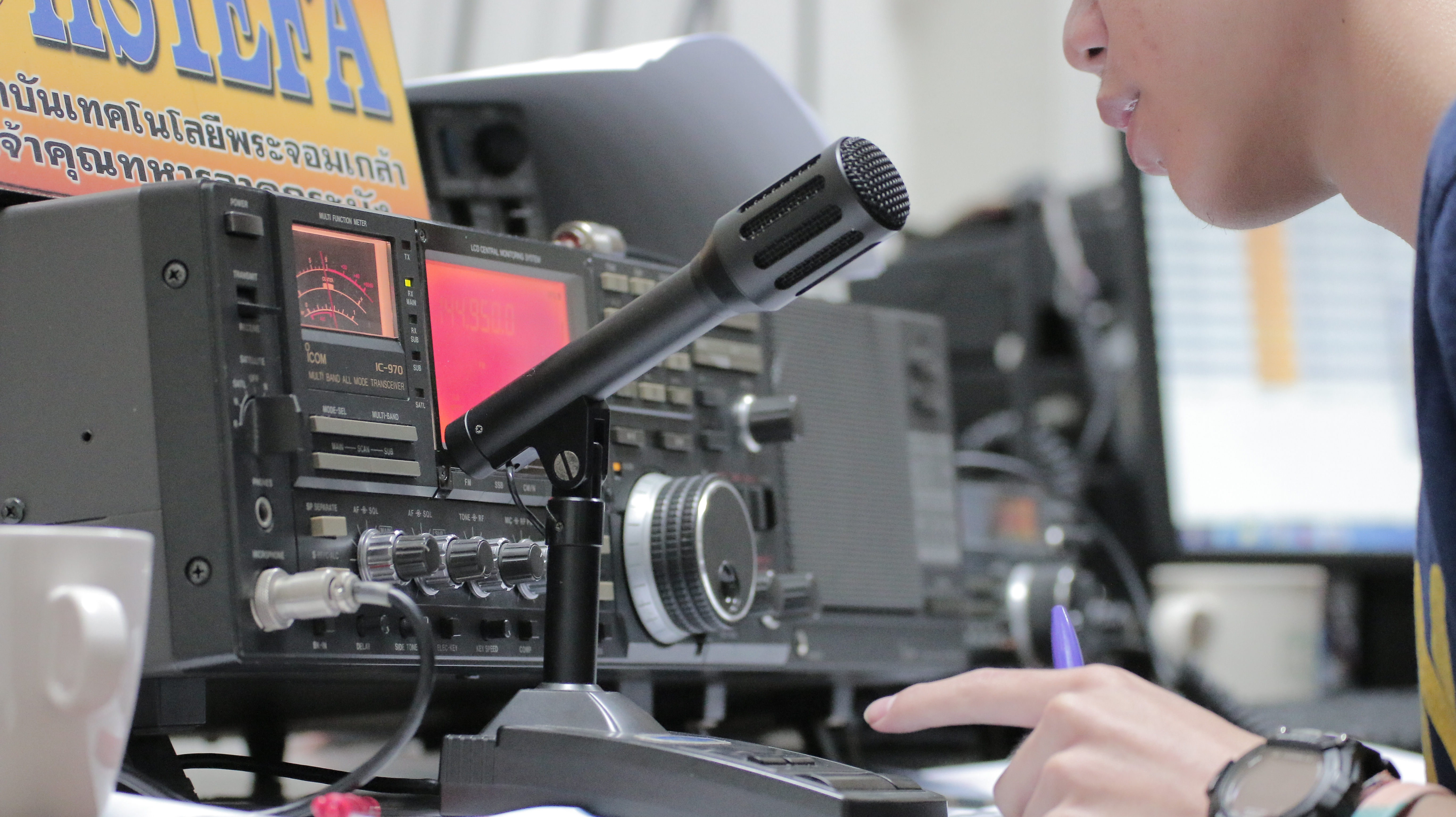 Amateur radio operator from KMITL Radio Amateur Club in action